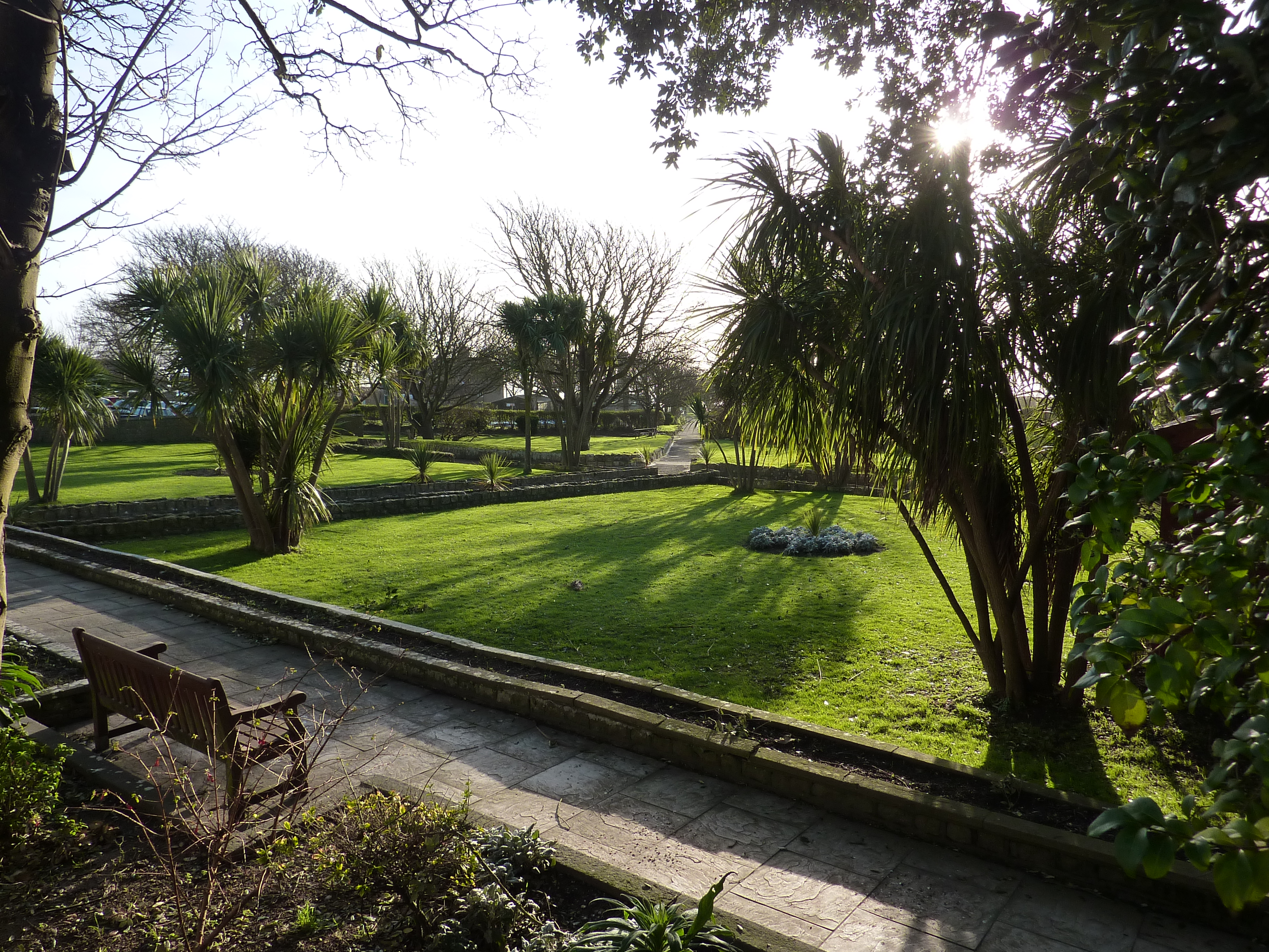 Governor's Community Garden, Grove Road, Portland